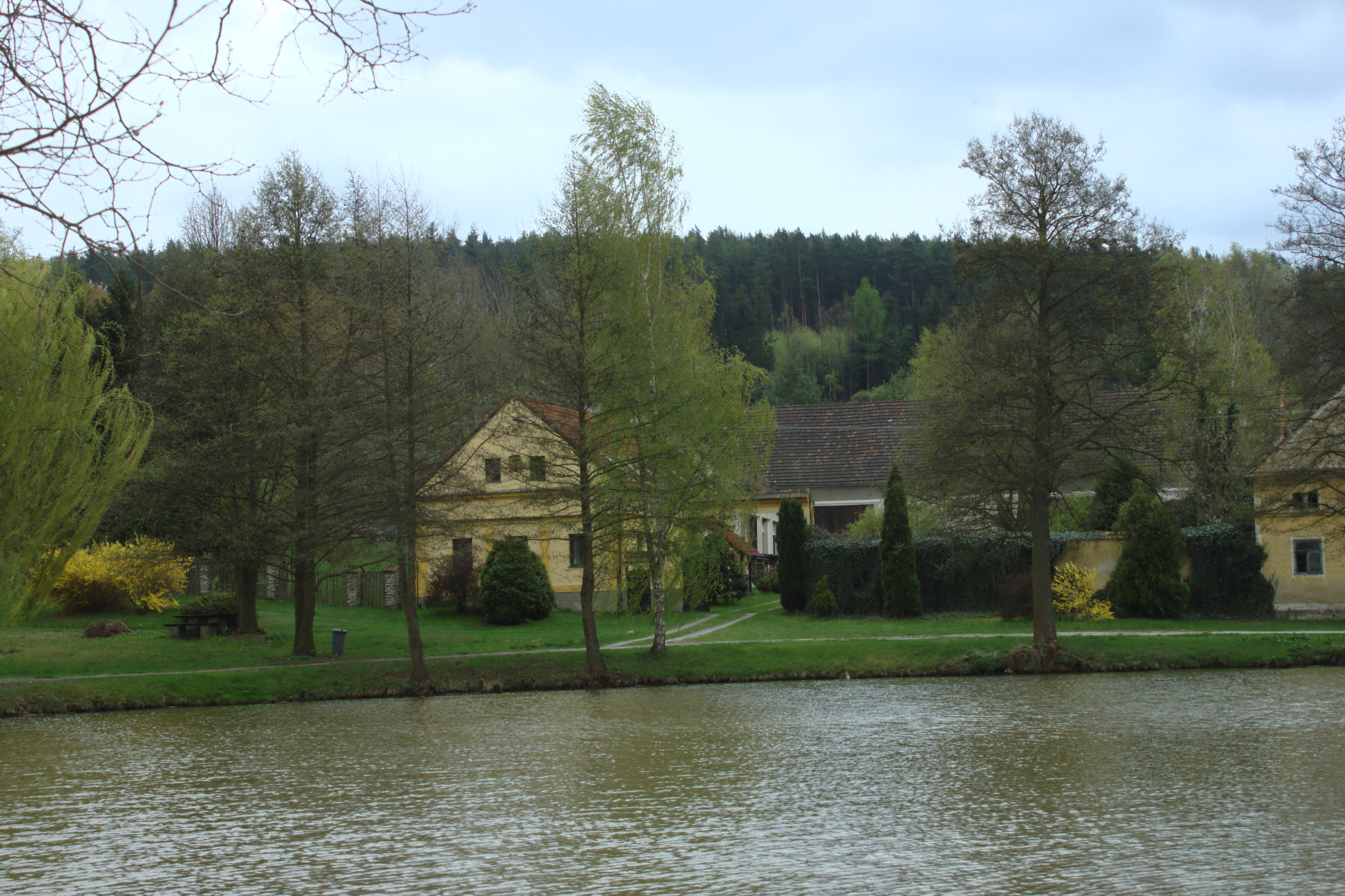 A pond in the village of Bozdíš in Plzeň Region, CZ